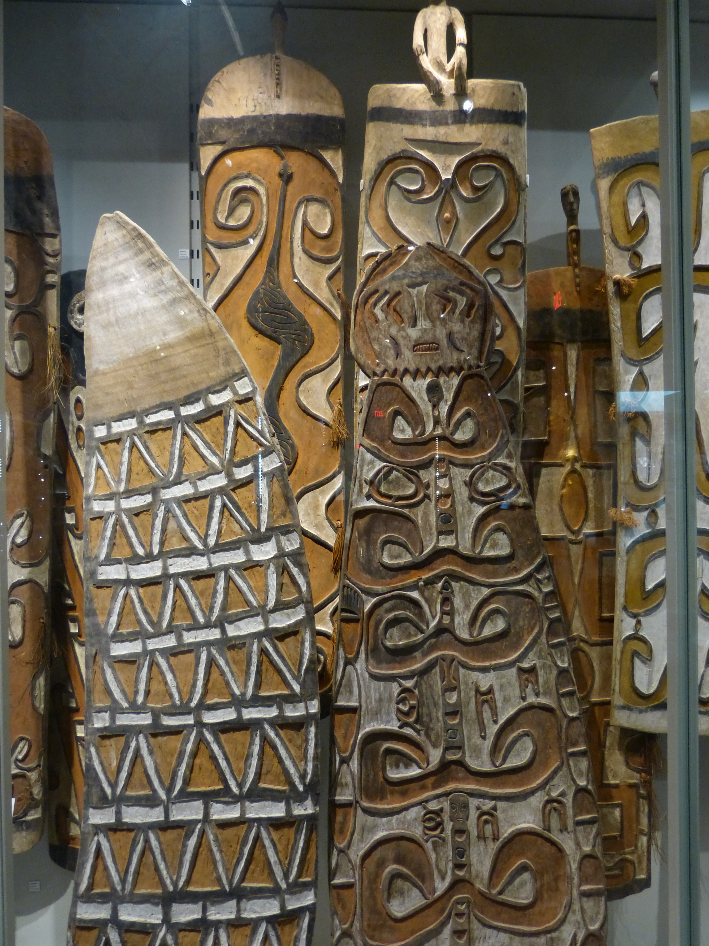 UBC Museum of Anthropology ( Vancouver / Canada ). Multiversity Galleries - Asmat shields ( West Papua )